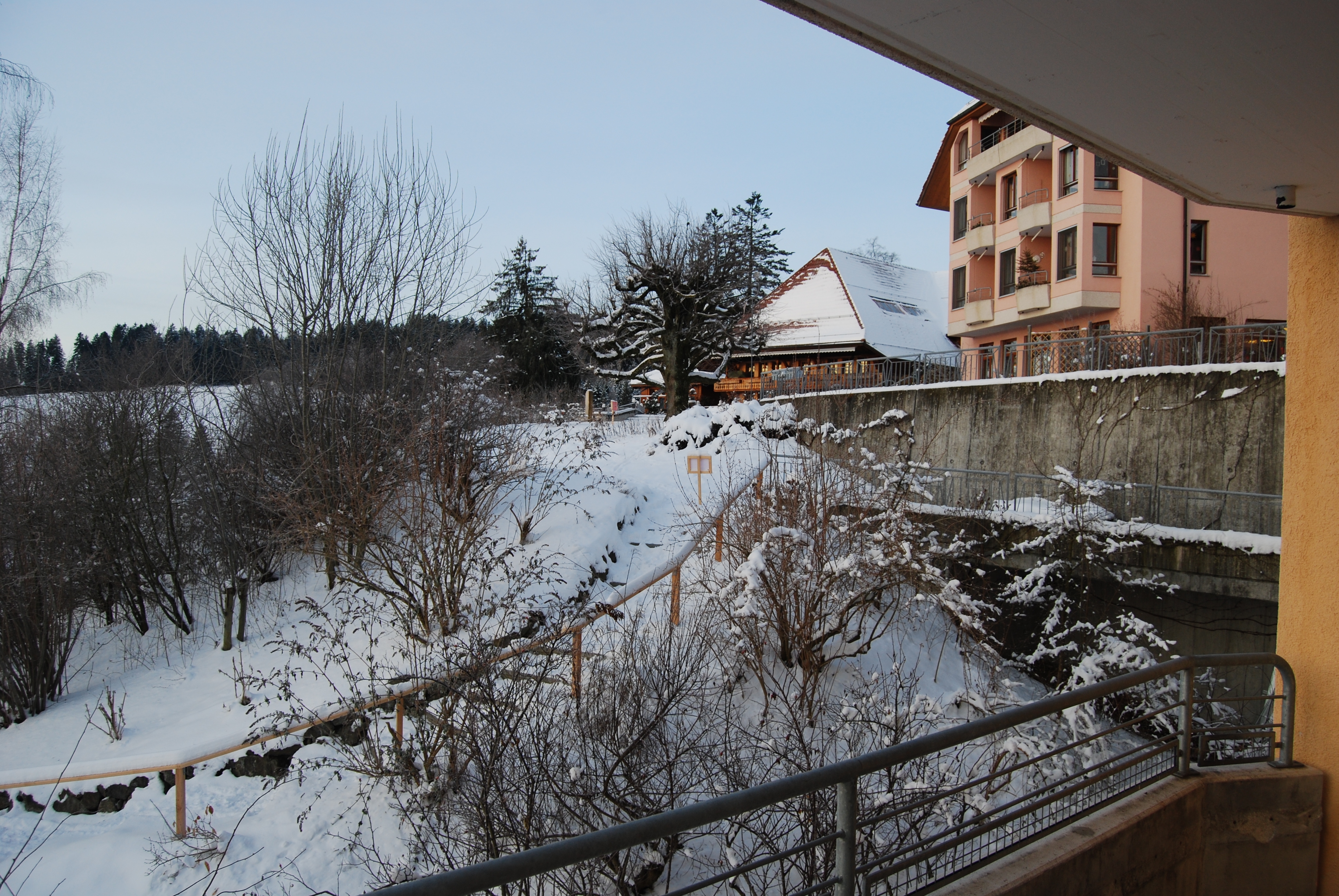 Hotel Rüttihubelbad at Walkringen, canton of Bern, Switzerland